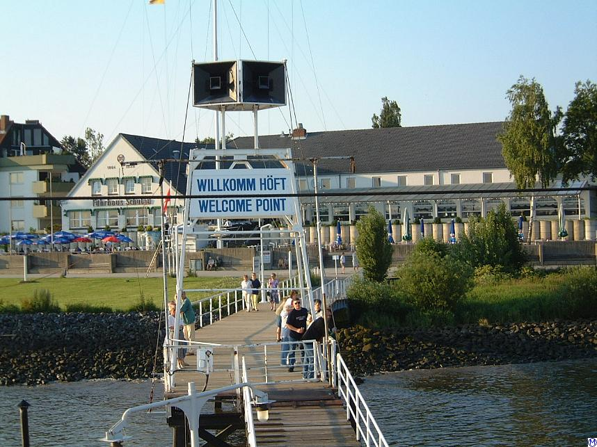 Welcome Point for upcoming Ships near Hamburg